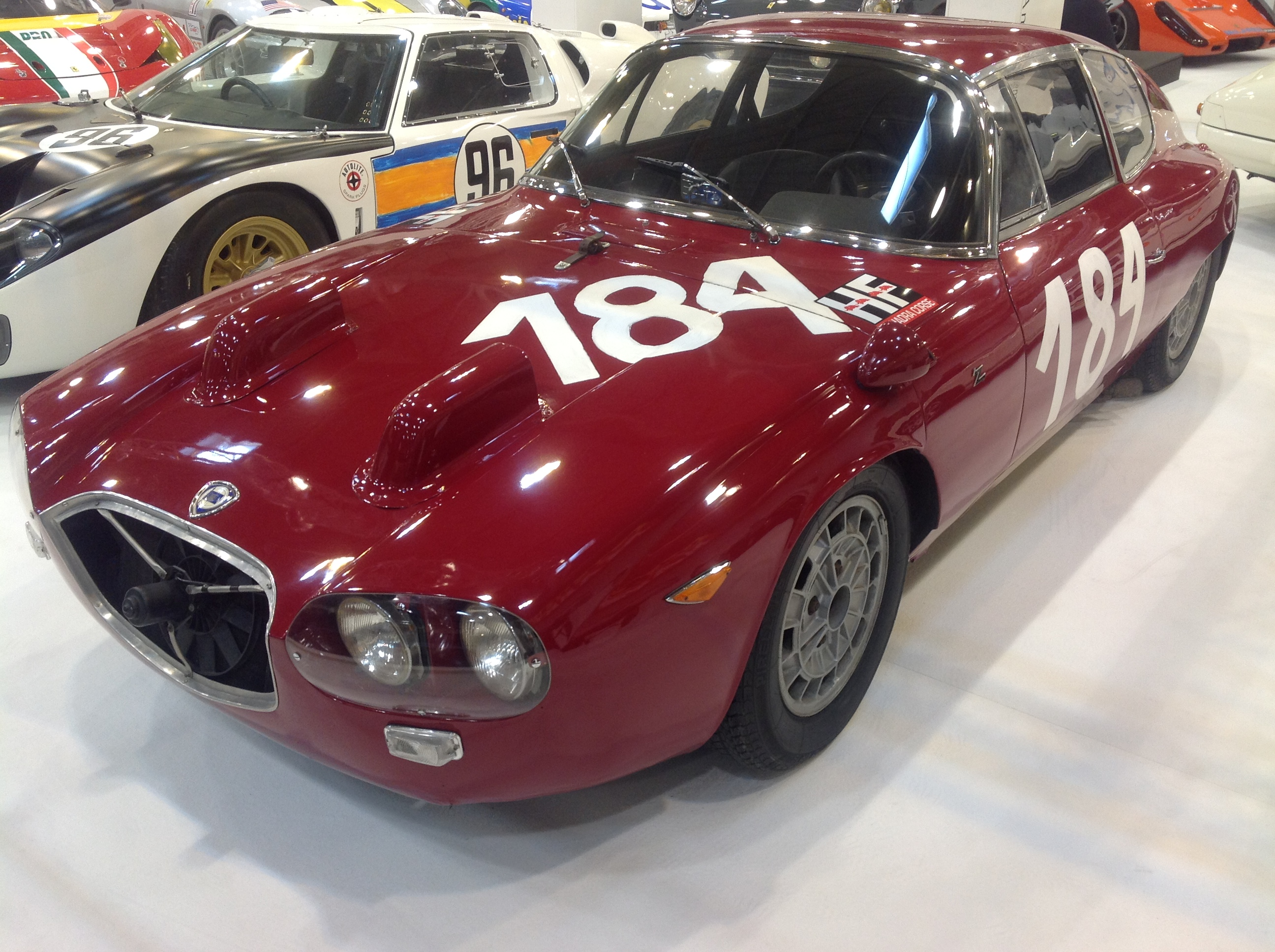 The bodywork at the back is different from the road car version.